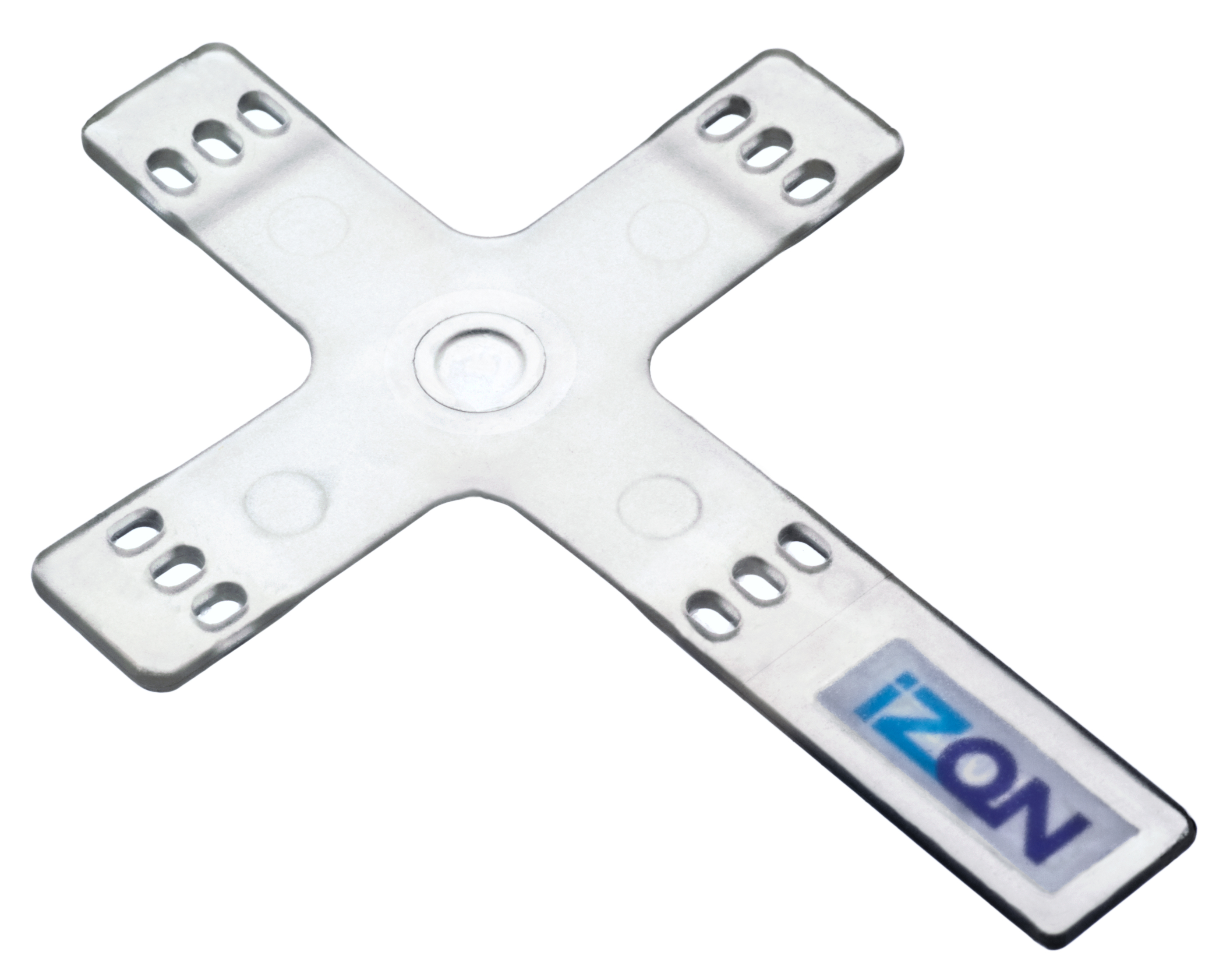 Izon Nanopore